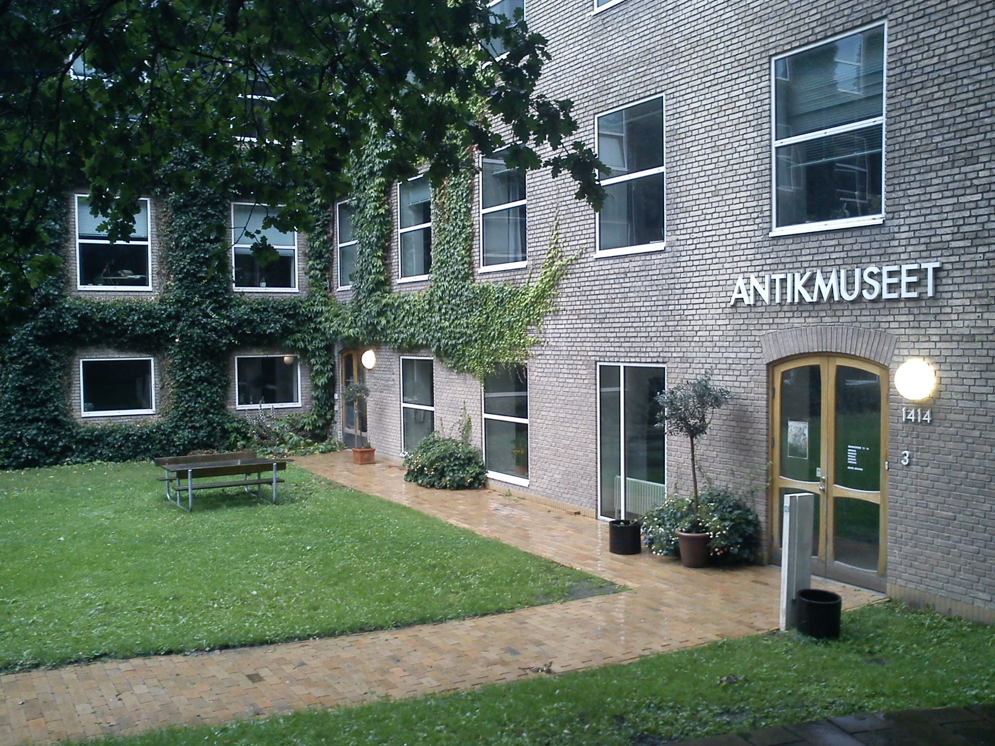 Antik Museet